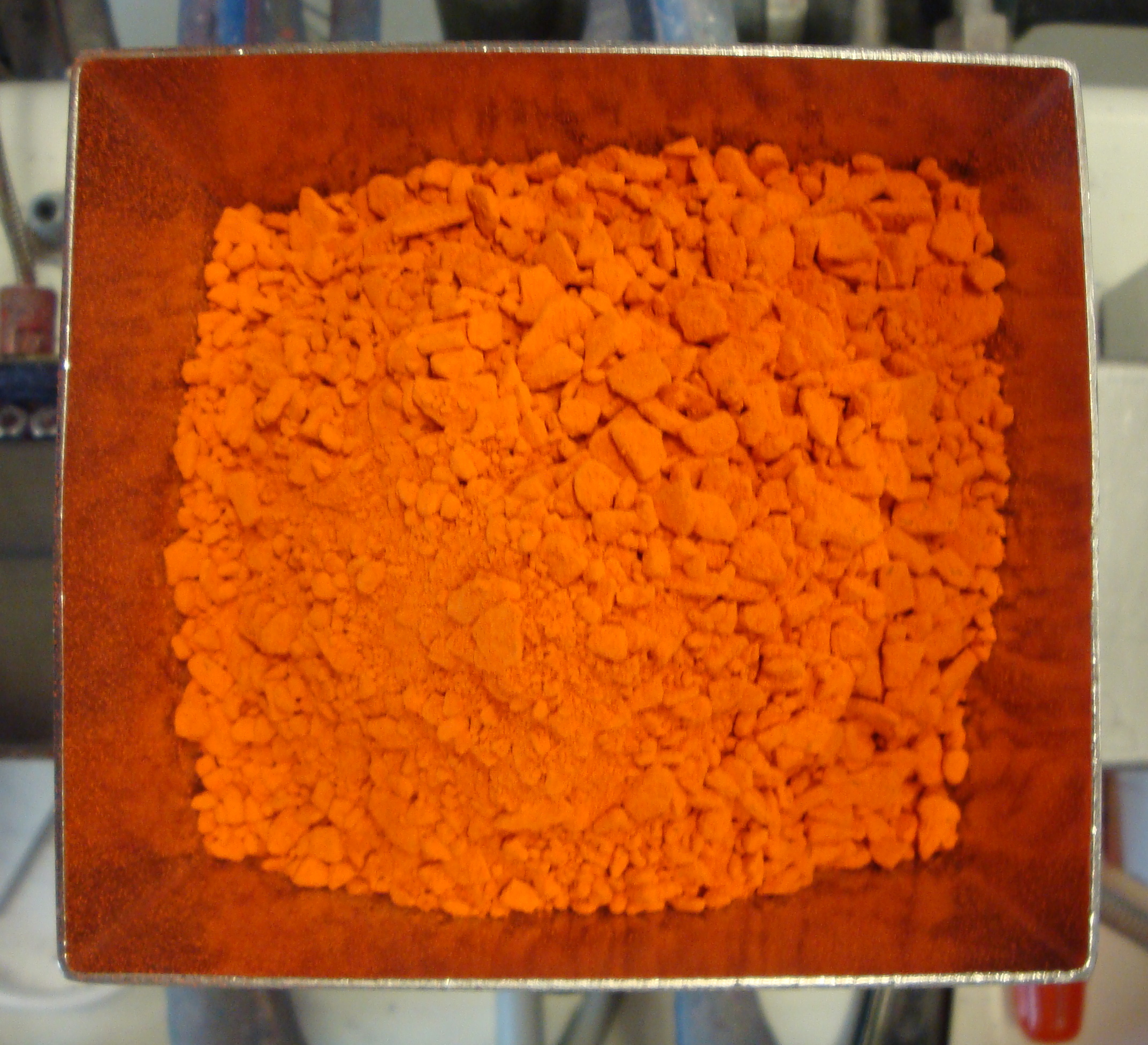 Premix of powder coatings raw materials in extruder